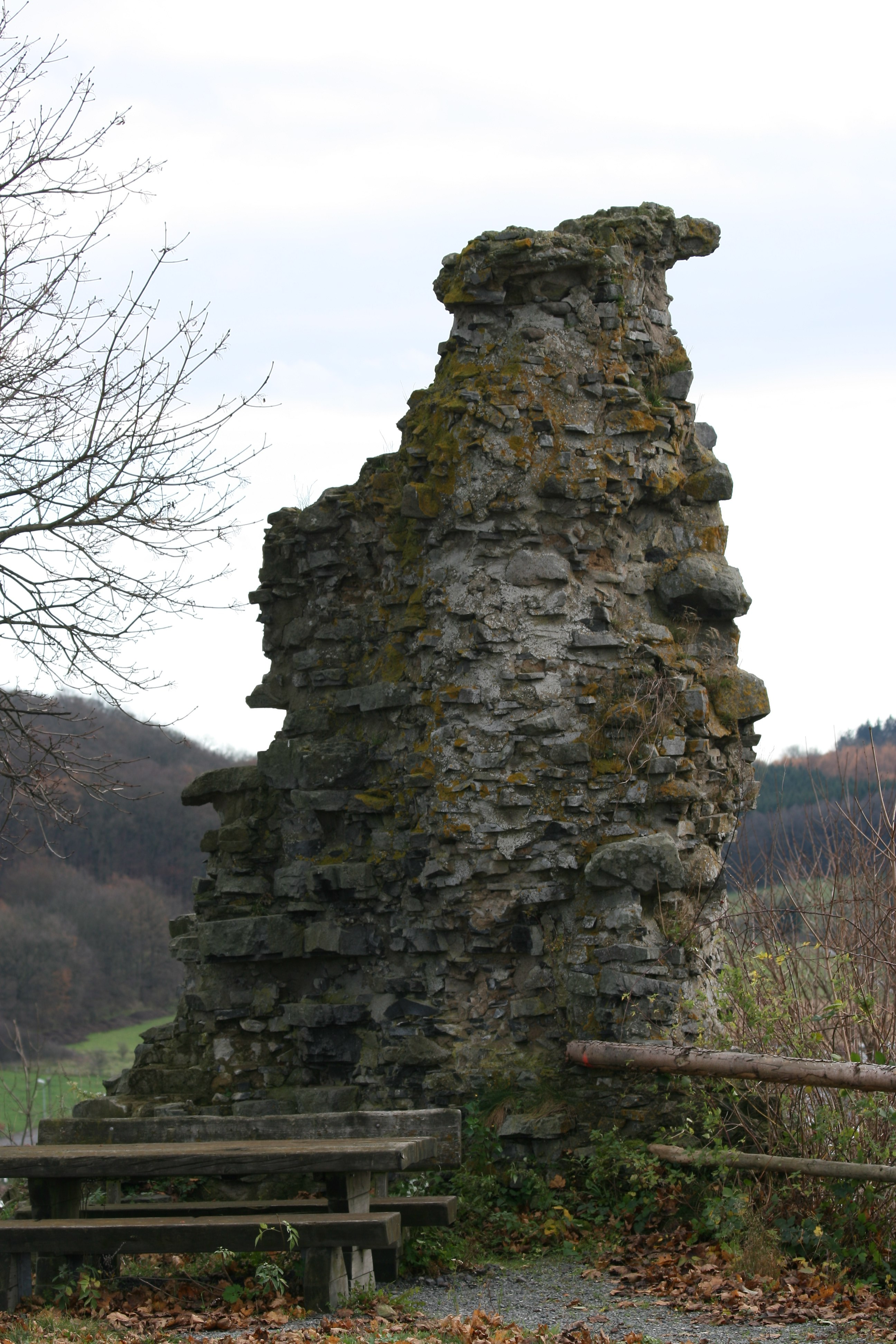 Old wall of the Burg Hartenfels Castle (Germany)